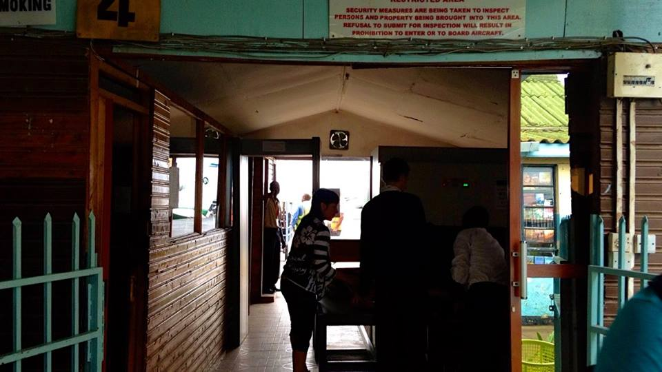 Security gate at Arusha Airport